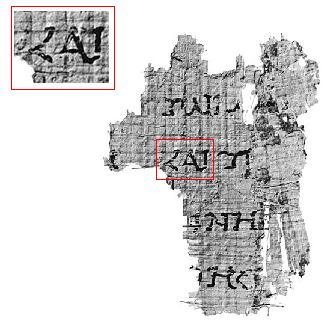 "KAI" of 7Q5